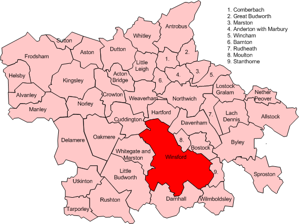 Map of civil parish of Winsford, Vale Royal, Cheshire